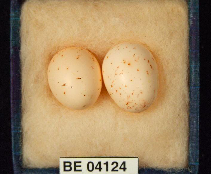 Two Grey-headed Honeyeater eggs (P. keartlandi) courtesy of Museums Victoria and the Atlas of Living Australia. Specimen collected by Whitlock, F.L. (1923-09-07), Photo taken by Rawoteea, Boheme Jennifer.